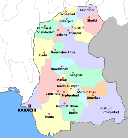 Location of Sindh in Pakistan.